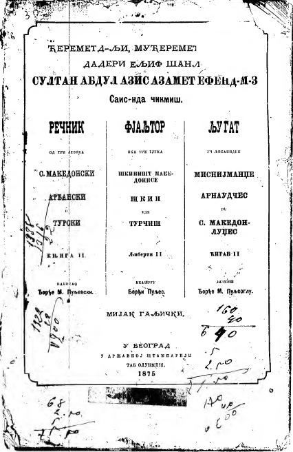 The cover page of the book "Dictionary of three languages" published by Gjorgjija Pulevski in 1875.